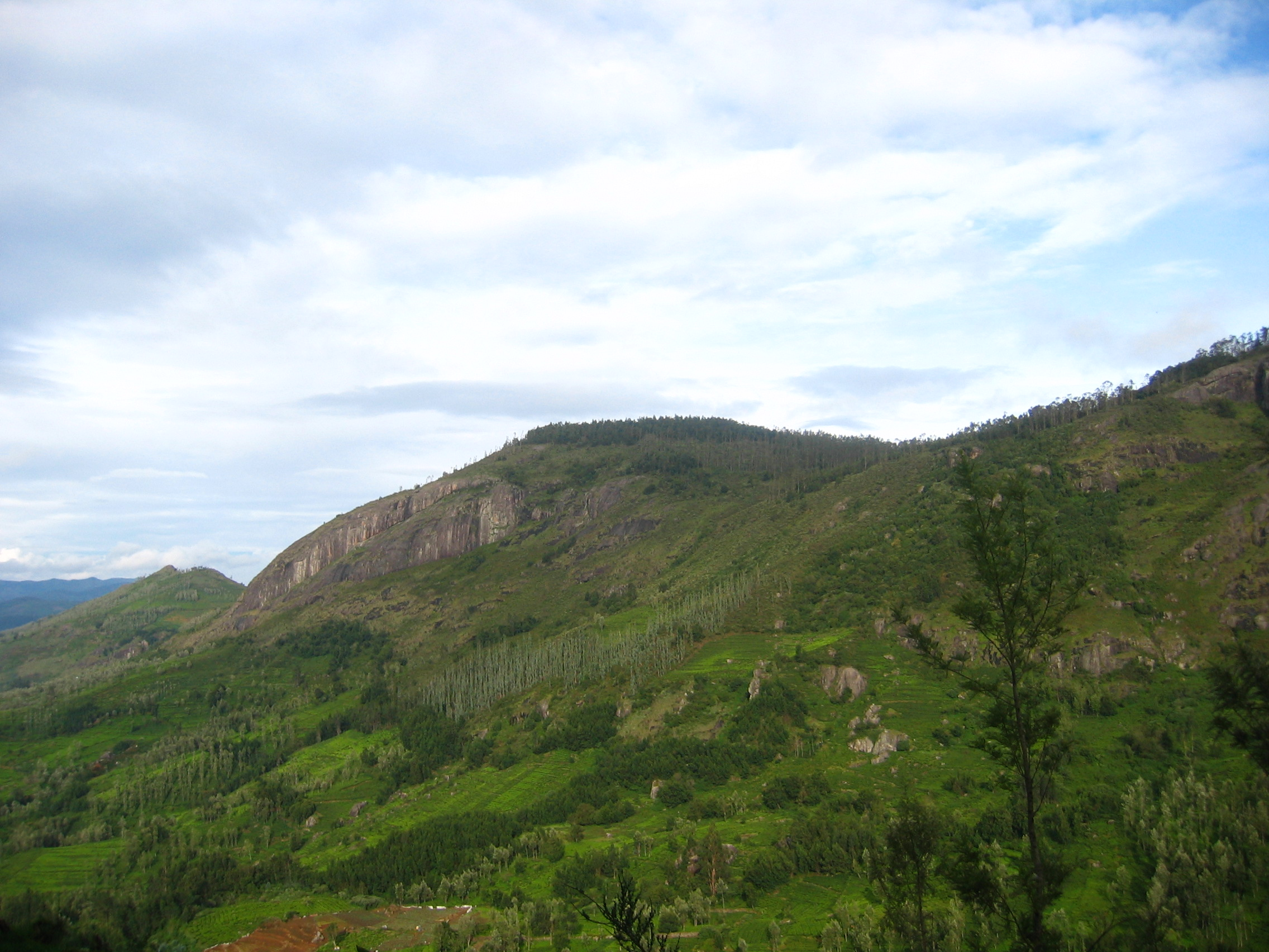 View across a valley in the Nilgiris of Ooty (Udhagai), Tamil Nadu, India.